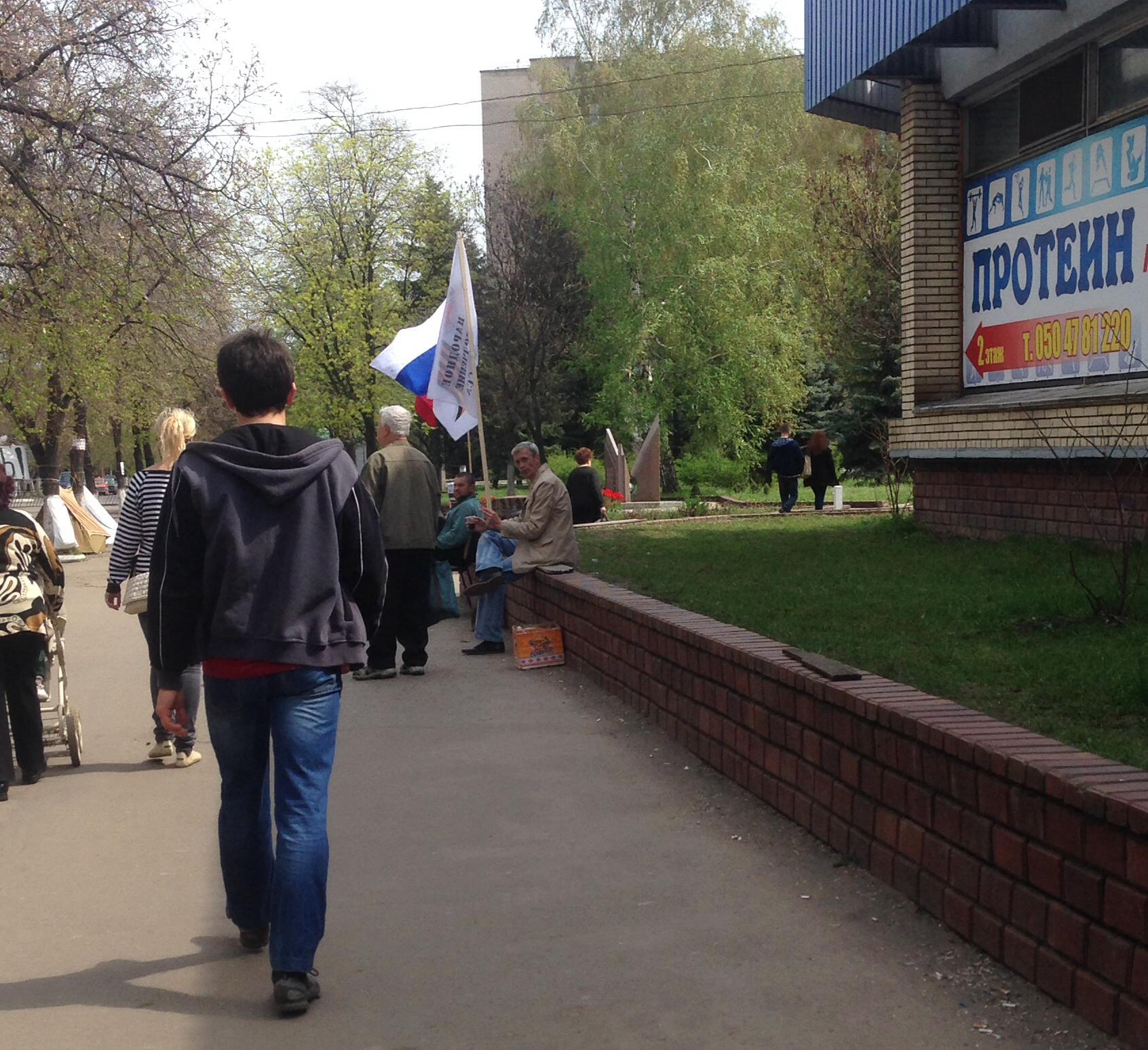 Sloviansk, Donetsk oblast, Ukraine, during the Sloviansk standoff. The author of this photo, Aleksandr Sirota, visited his parents in the city on Easter holidays.